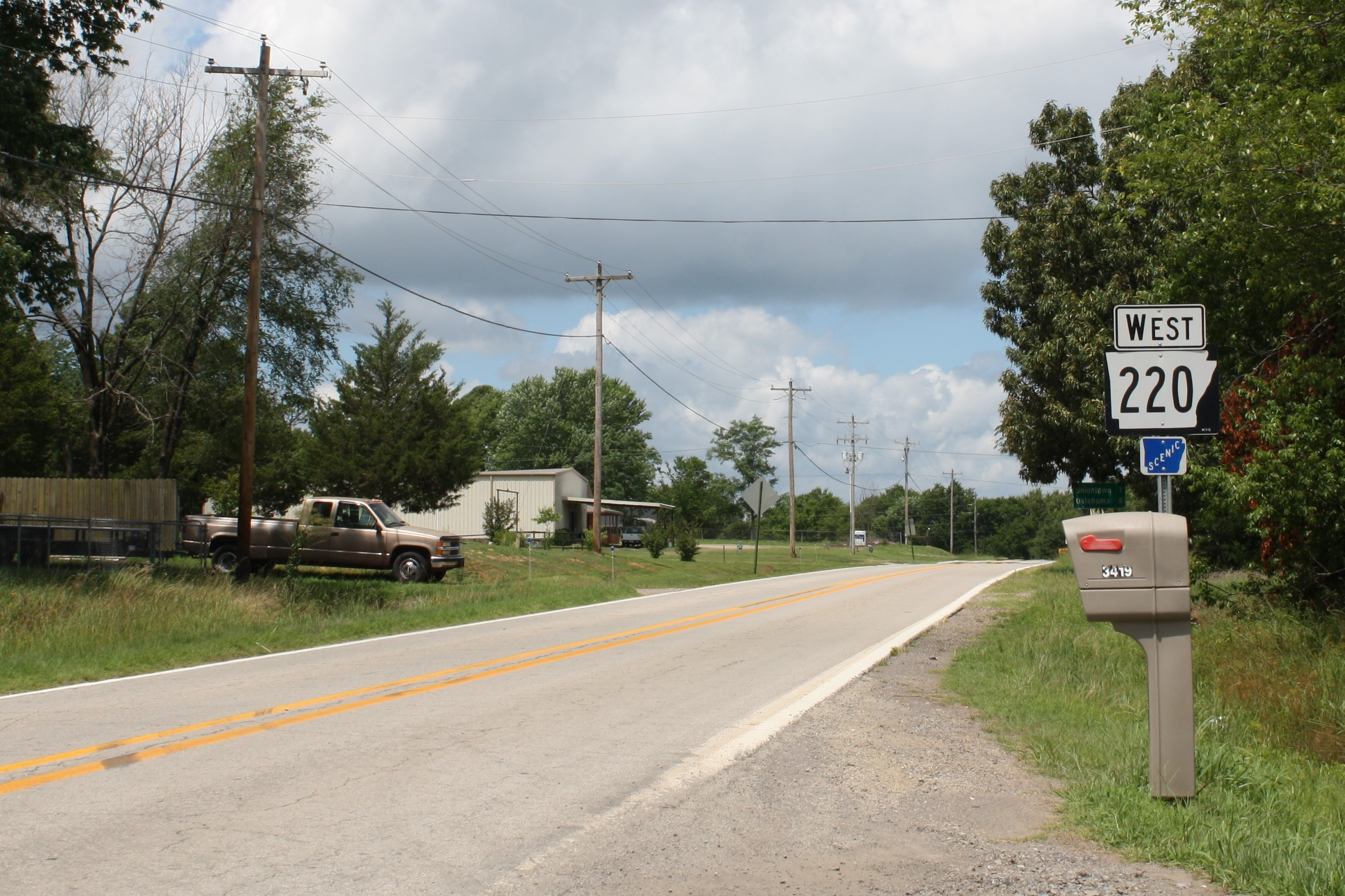 Highway 220 at Uniontown, Arkansas just past the Highway 59 intersection